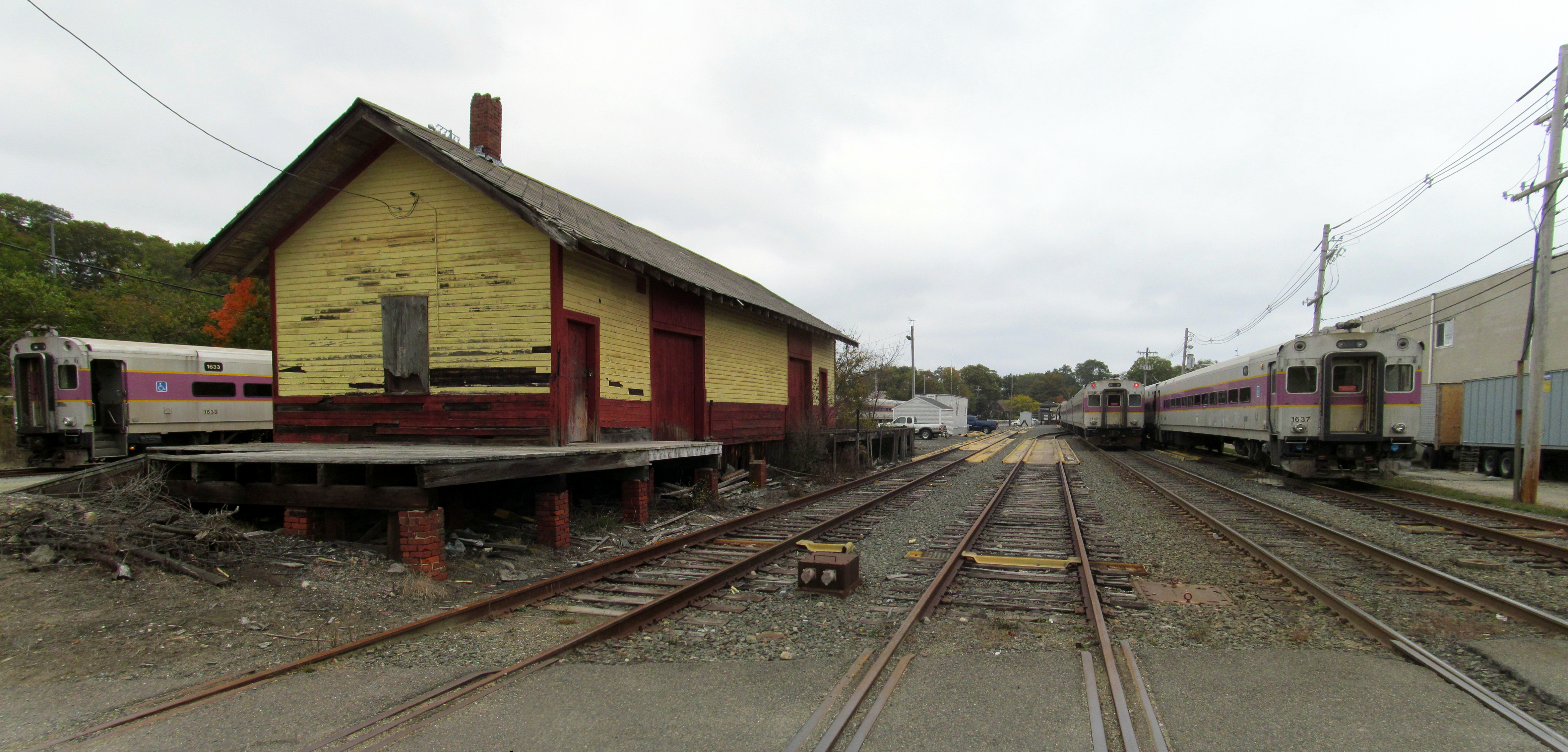 Panorama of the old freight house and layover yard at Rockport